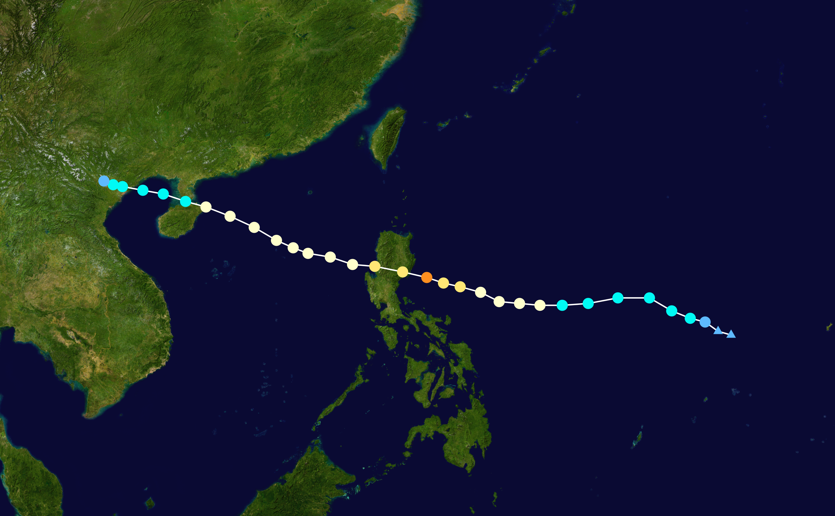 Track map of Typhoon Nesat of the 2011 Pacific typhoon season. The points show the location of the storm at 6-hour intervals. The colour represents the storm's maximum sustained wind speeds as classified in the Saffir–Simpson scale (see below), and the shape of the data points represent the nature of the storm, according to the legend below. Saffir–Simpson scale Tropical depression≤38 mph≤62 km/h Category 3111–129 mph178–208 km/h Tropical storm39–73 mph63–118 km/h Category 4130–156 mph209–251 km/h Category 174–95 mph119–153 km/h Category 5≥157 mph≥252 km/h Category 296–110 mph154–177 km/h Unknown Storm type Tropical cyclone Subtropical cyclone Extratropical cyclone / Remnant low / Tropical disturbance / Monsoon depression